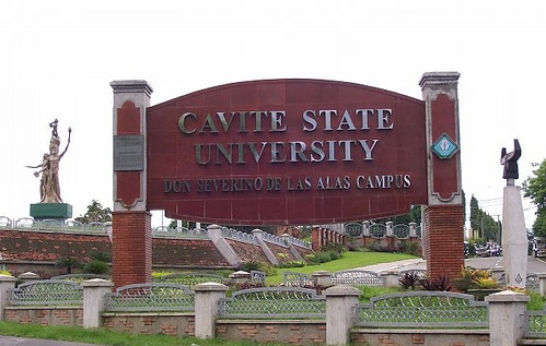 The landmark of CvSU Main